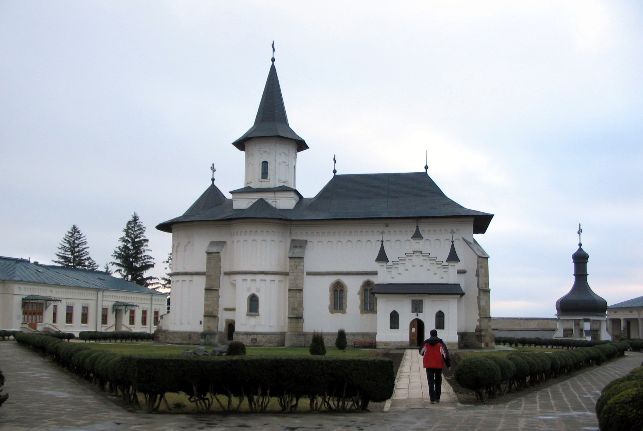 The episcopal cathedral in Roman, Romania